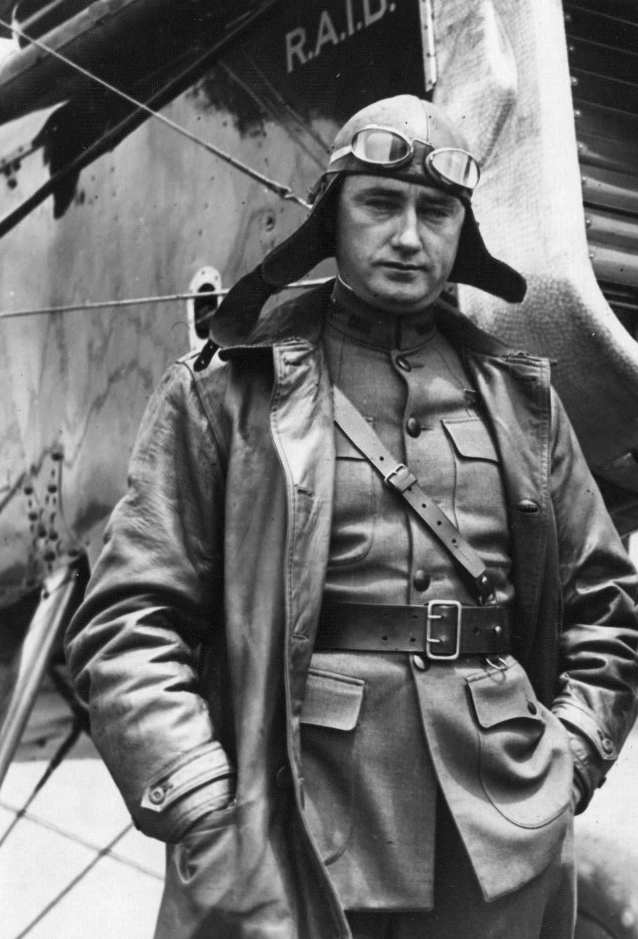 Captain Lowell H. Smith